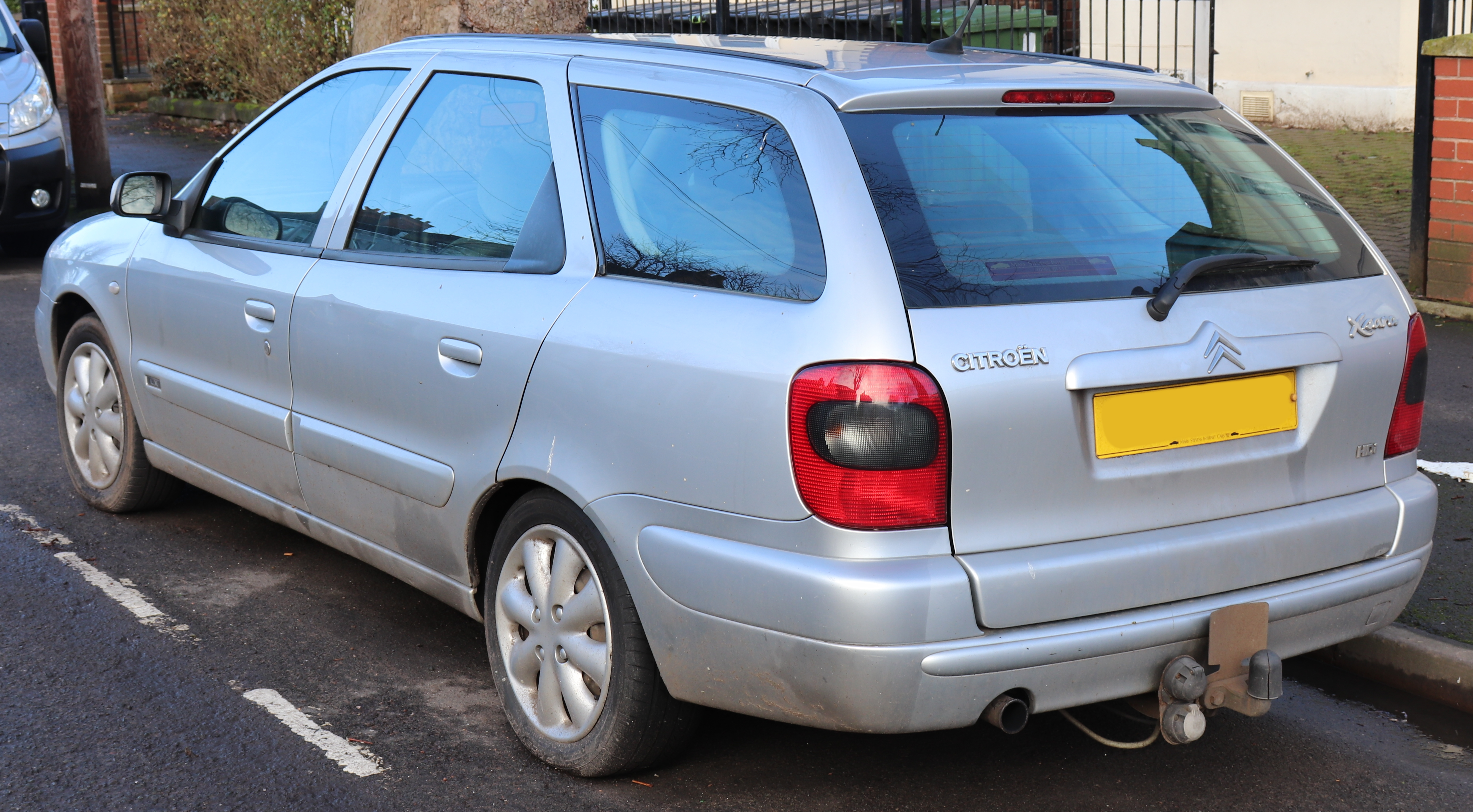 2002 Citroen Xsara LX HDi Estate 2.0 Rear Taken in Leamington Spa